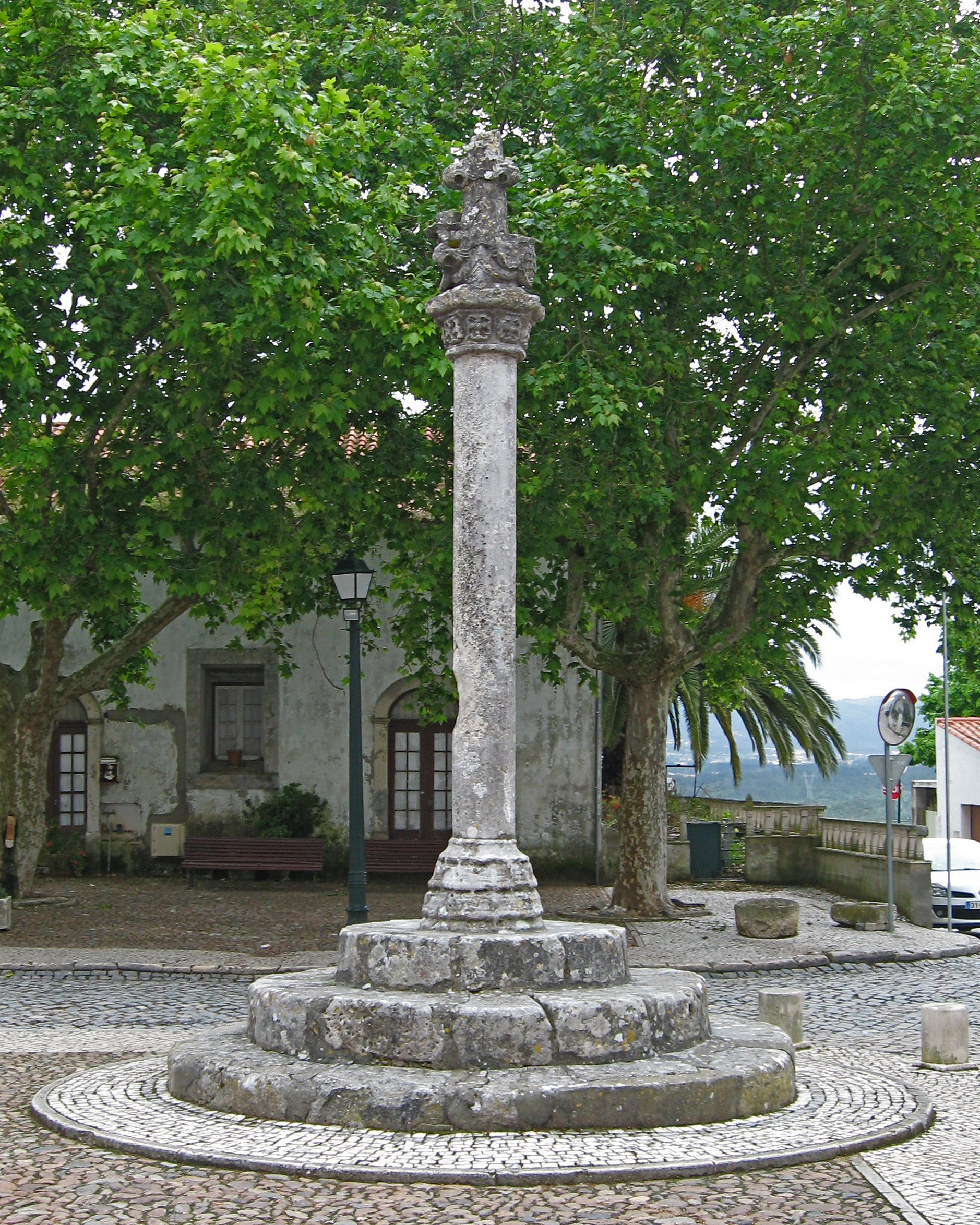 Aljubarrota, Portugal, pillory, year 1514, for jurisdiction of monastery of Alocbaça